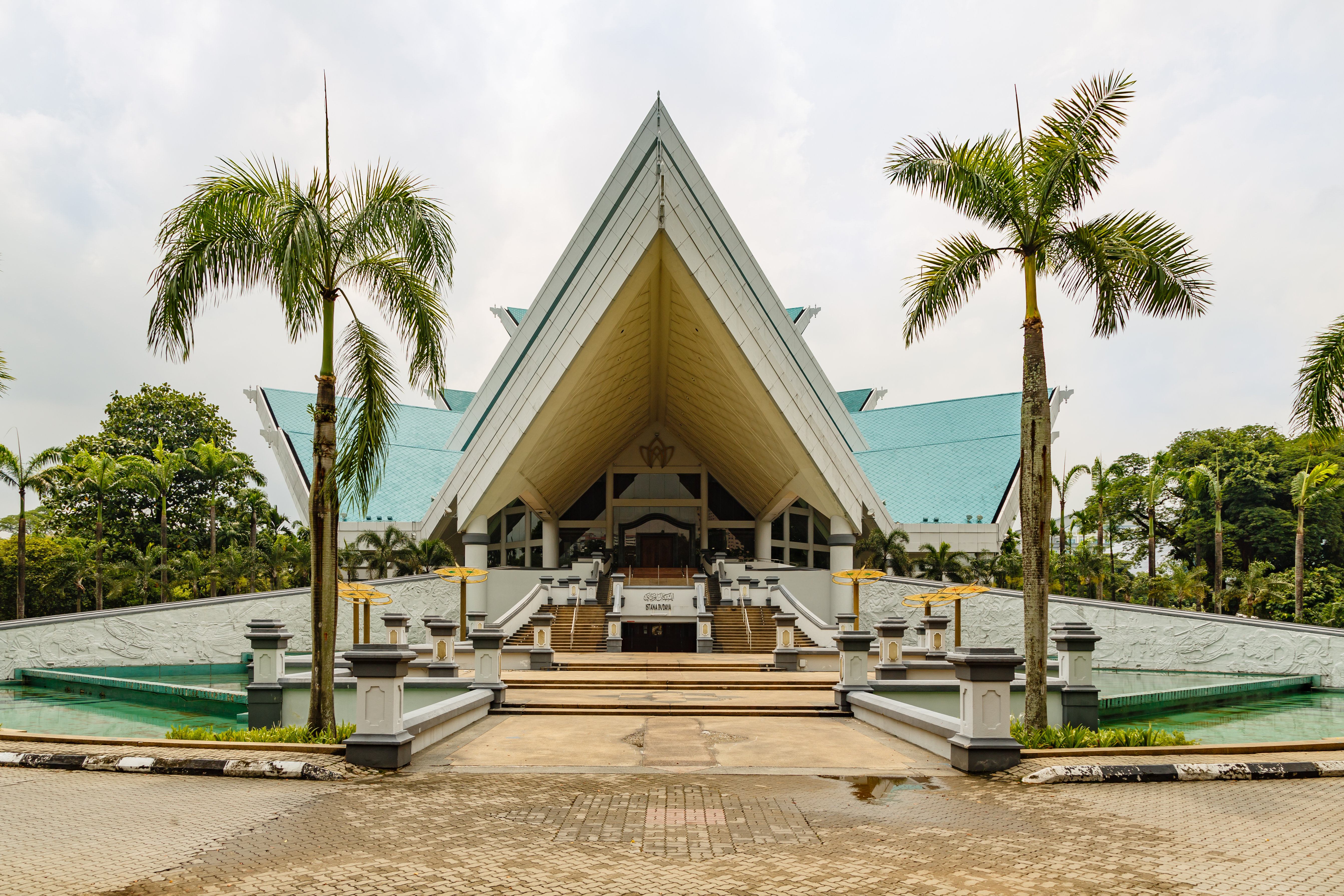 Kuala Lumpur, Malaysia: Istana Budaya (The Palace of Culture) is Malaysia's main venue for all types of theatre including musical theater, operetta, classical concert and opera from local and international performances.